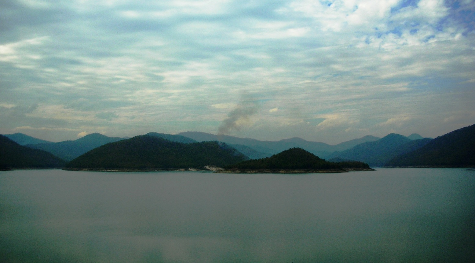 The Mae Kuang reservoir with the Khun Tan Range in the east in the background and a seasonal wildfire. Near Doi Saket, Chiang Mai, Thailand